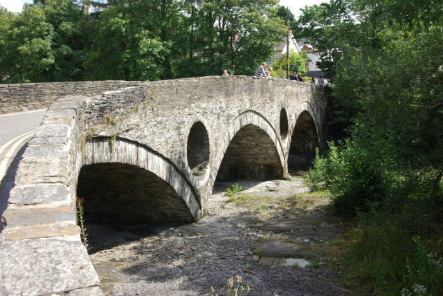 Cenarth Bridge Cenarth Bridge carries the A484 Cardigan - Carmarthen road across the Afon Teifi, out of Ceredigion and into Carmarthenshire. Records of a bridge at this location date back as far as 1188.